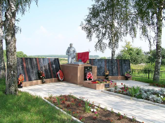 Вечный огонь, братская могила, Руднево, Орловская область